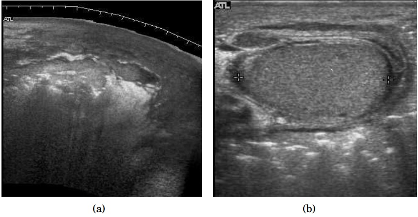 Scrotal ultrasonography of a Fournier gangrene